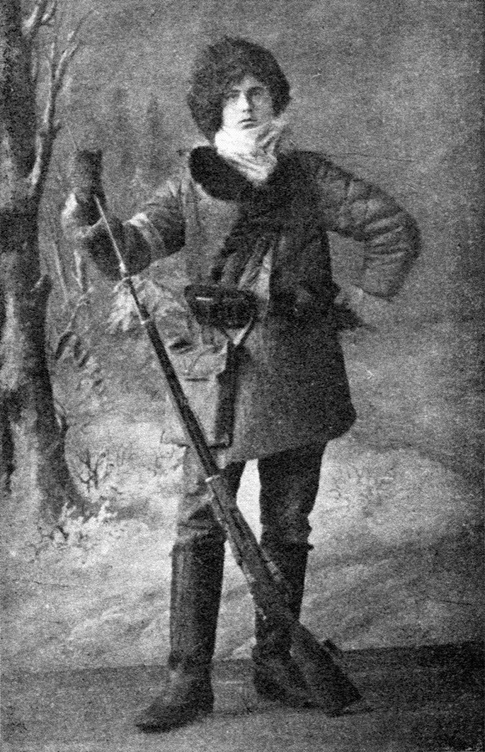 A volunteer student soldier from Narva, Viktor Pajo, in the early days of the Estonian War of Independence.